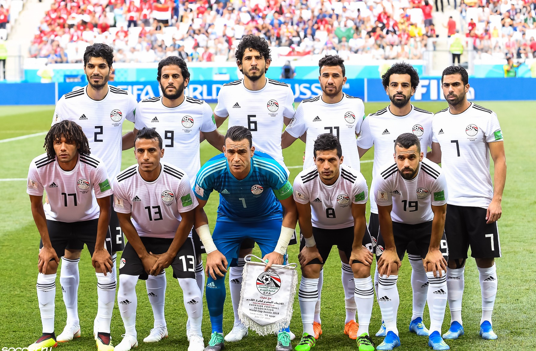 Egypt national football team